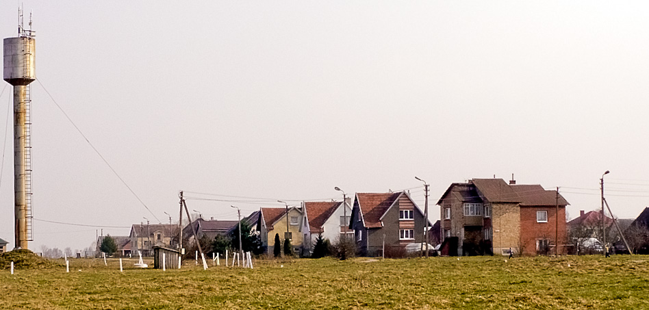 Šiauliai district, Lithuania